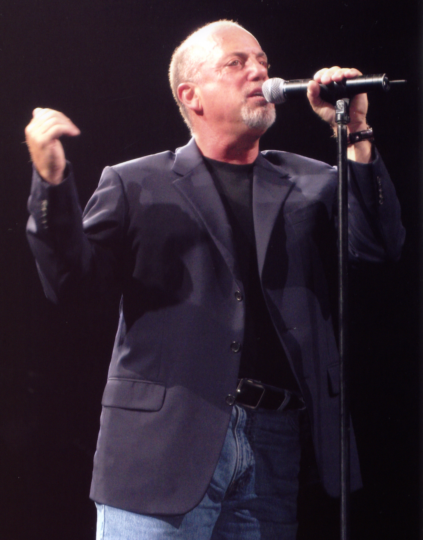 Billy Joel performing An Innocent Man at Burswood Dome in Perth Western Australia, 7 November 2006